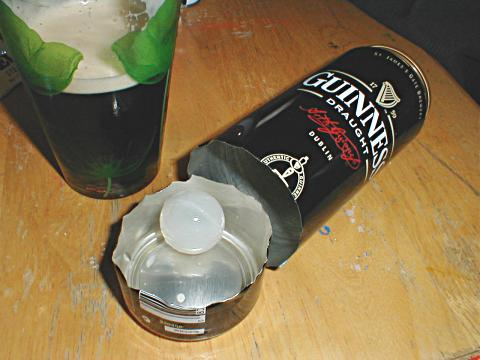 Floating widget, Guinness source: me Duk 16:59, 20 Oct 2004 (UTC)